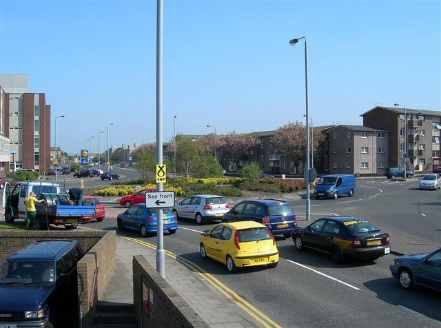 King Street Roundabout Viewed at a fairly quiet time on a Friday morning. The political sign was put there for the Scottish elections on the previous day.